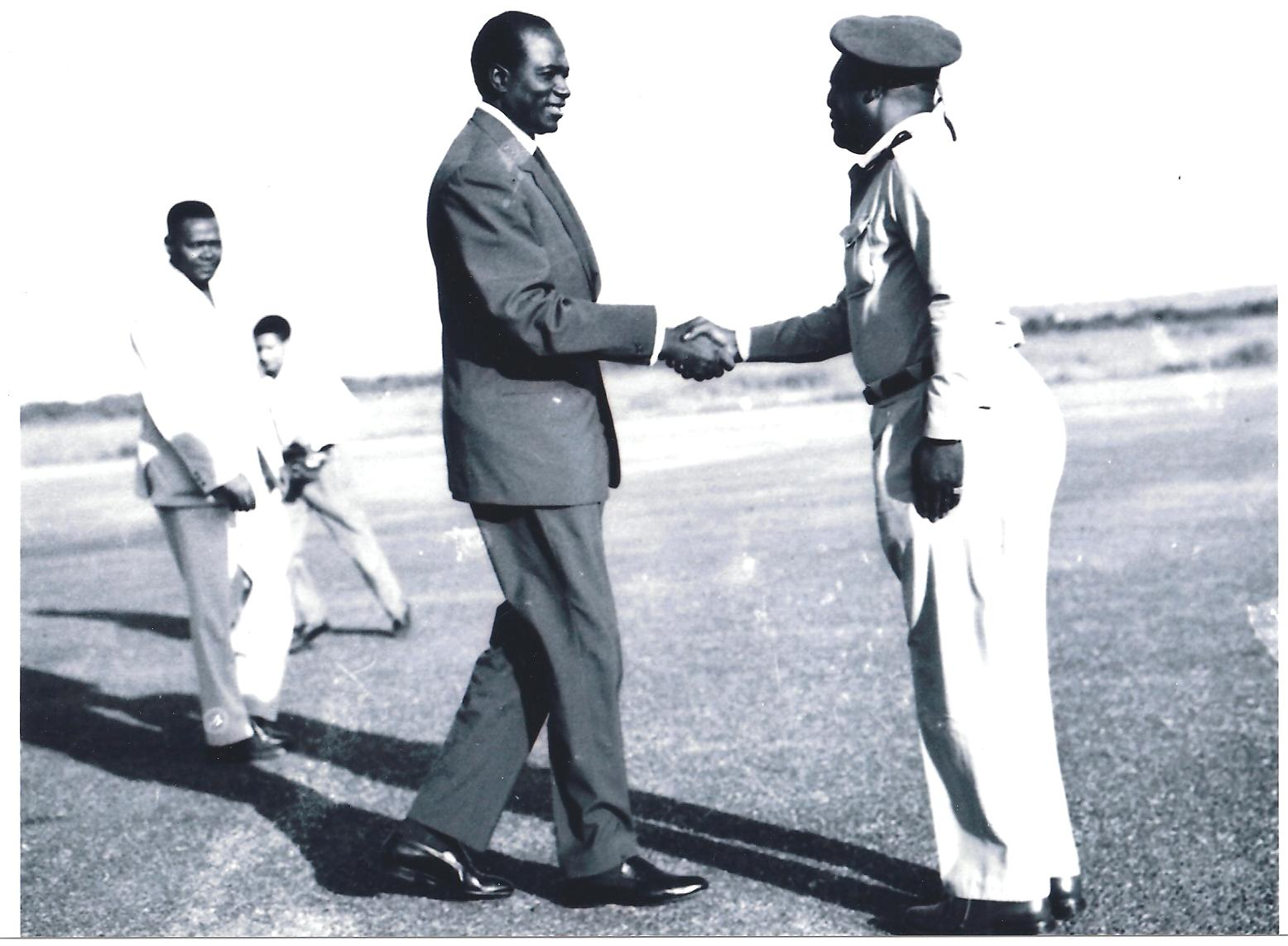 Malian president Modibo Keïta greeted by Abdoulaye Soumaré in 1963.